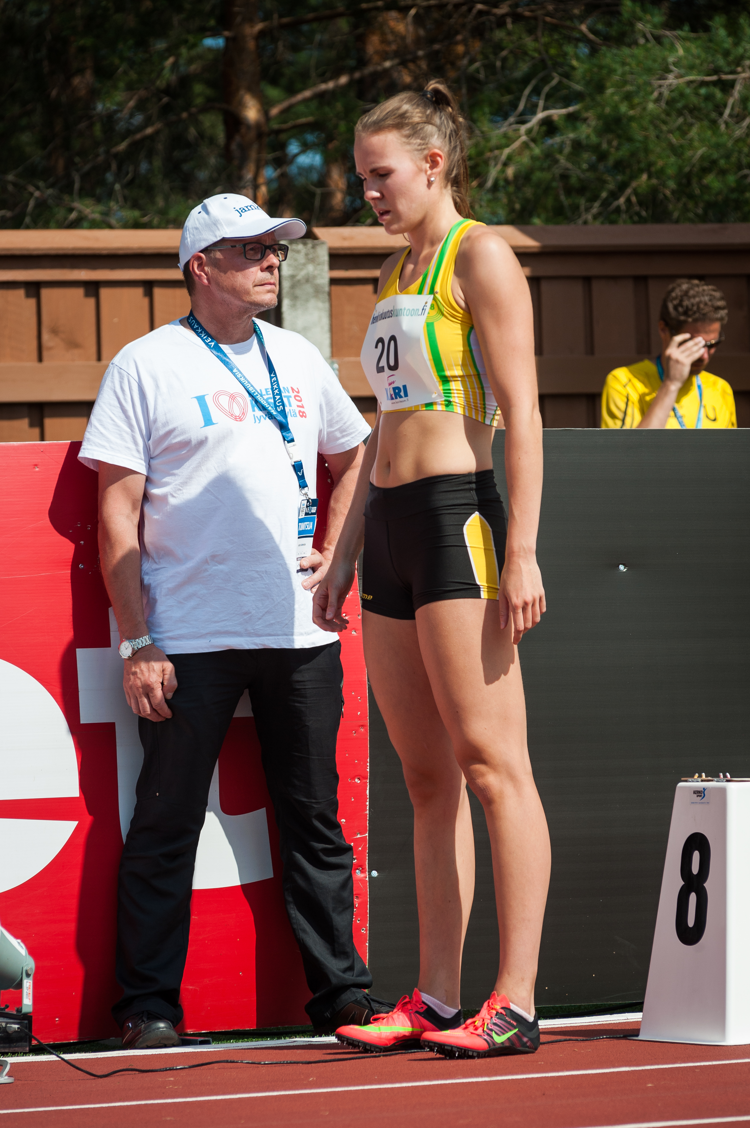 Women's 200 m competition at the 2018 Kalevan Kisat, the Finnish championships in athletics, in Jyväskylä, Finland.